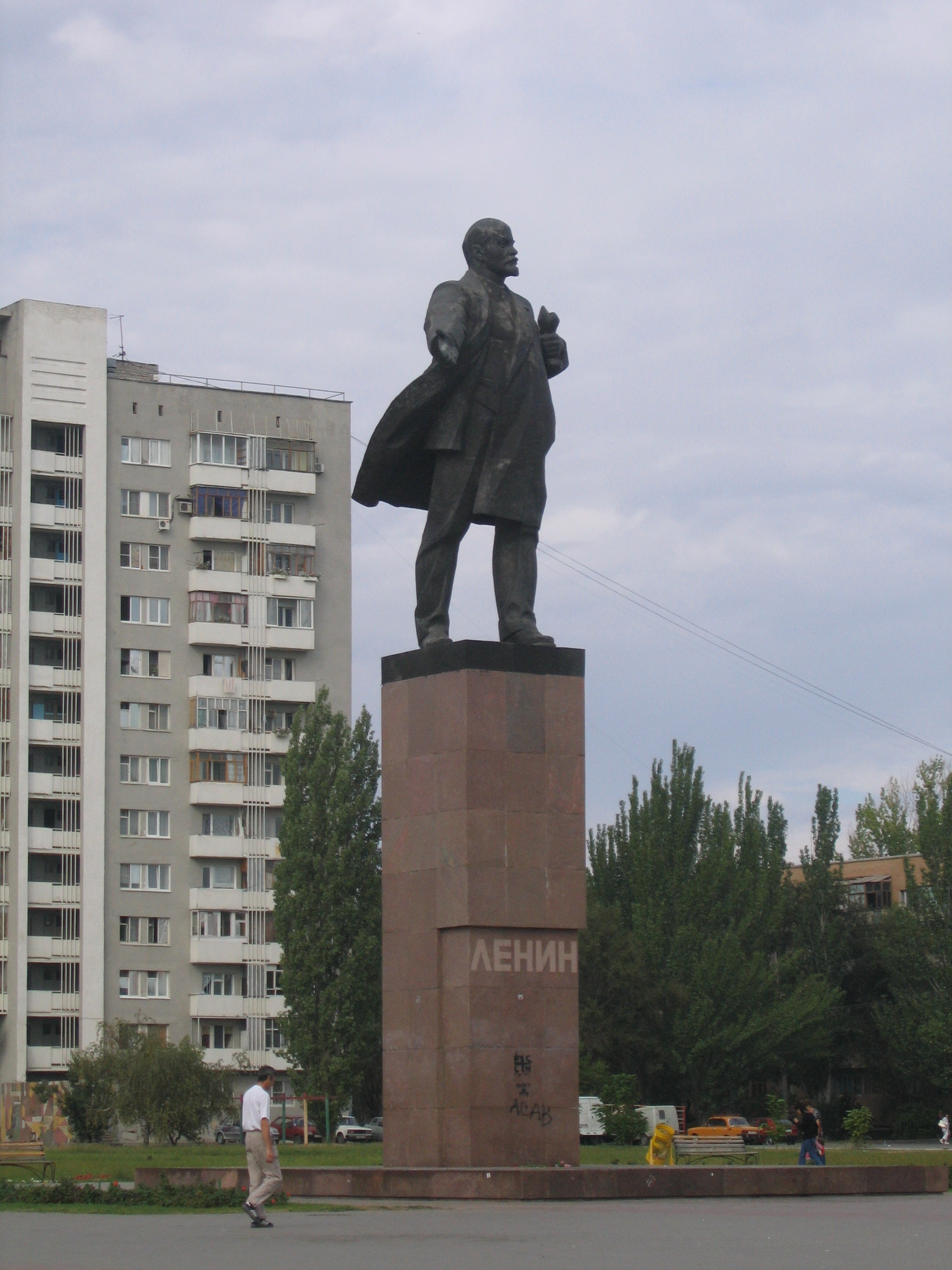 Ленин (Волжский, Волгоград)